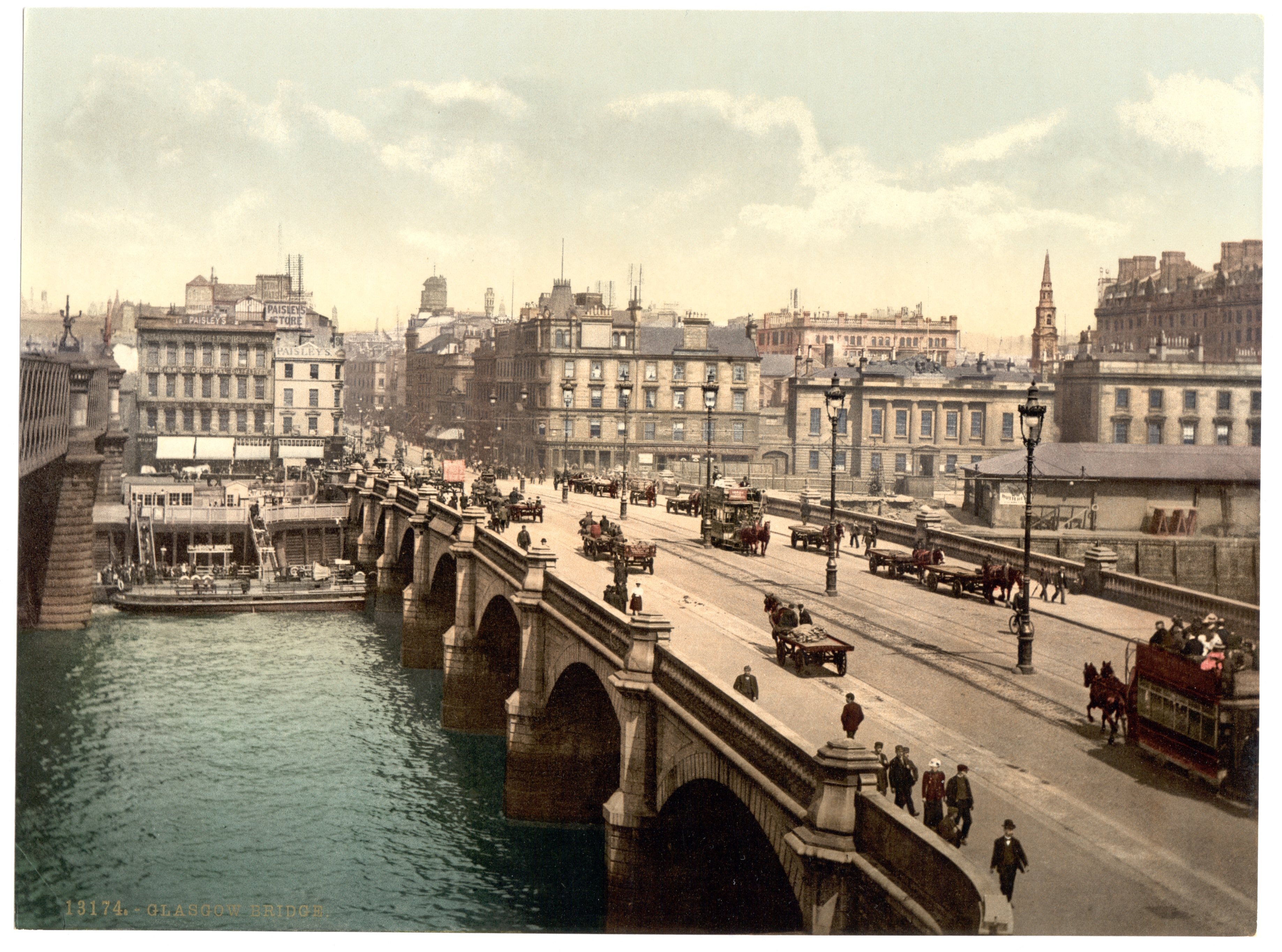 Print no. "13174".; Title listed in the Detroit Publishing Co., catalogue J-foreign section. Detroit, Mich. : Detroit Photographic Company, 1905: "The bridge, Glasgow."; More information about the Photochrom Print Collection is available at Forms part of: Views of landscape and architecture in Scotland in the Photochrom print collection.; Title from item.